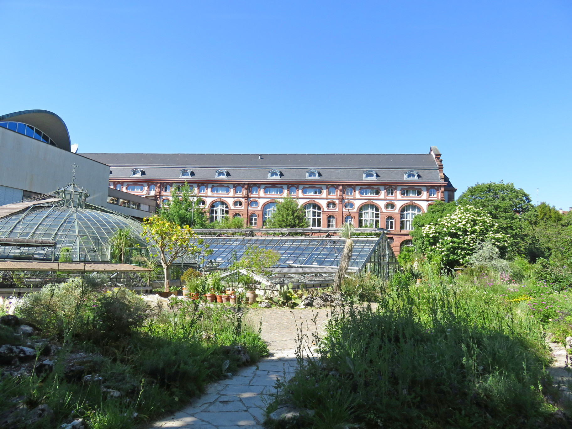 Botanical garden in Basel (CH) with some of the greenhouses. The left one is the Victoria Greenhouse. In the background is old university building with on the left side the new library of the university.